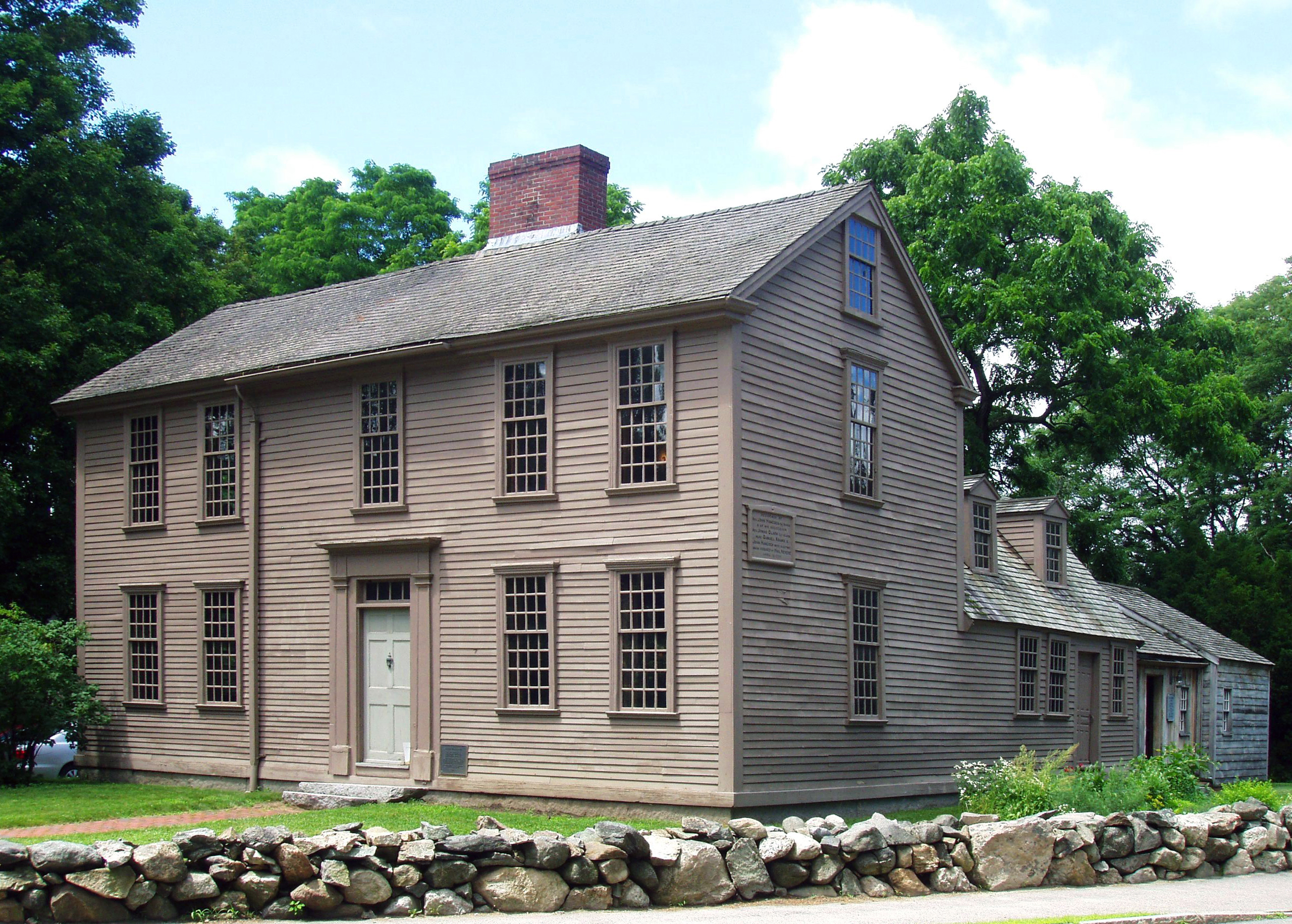 The Hancock-Clarke House, a historical house and museum in Lexington, Massachusetts.